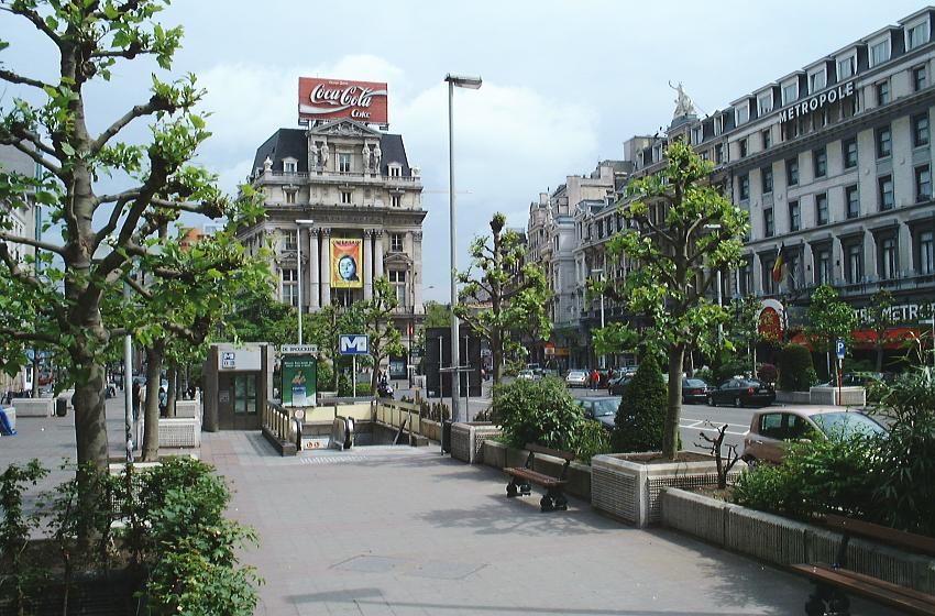 Entry/Exit of sation "De Broukére" of the Brussels metro